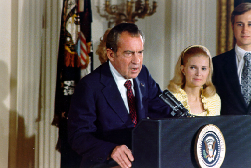 Nixon says goodbye to the White House staff.